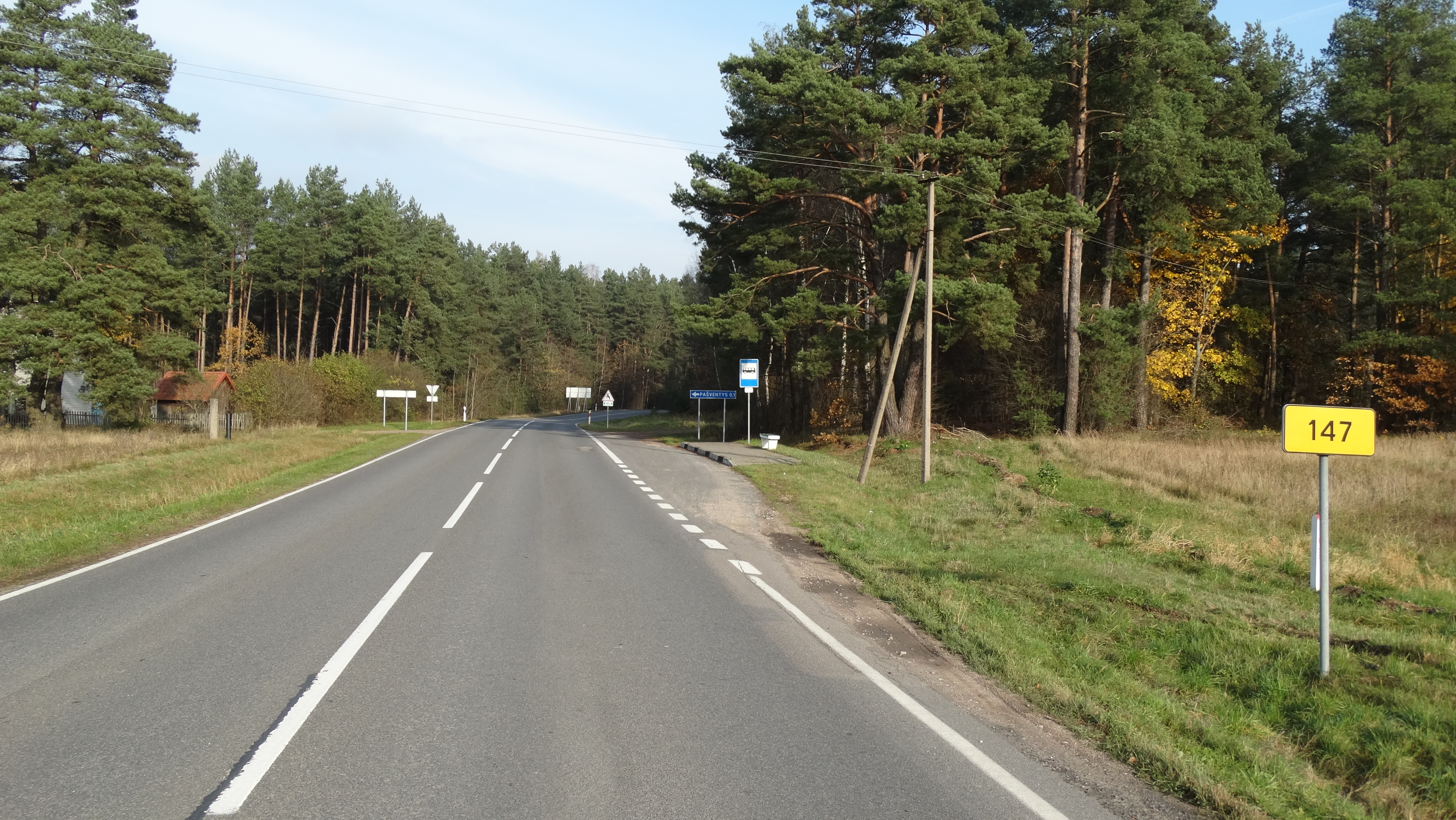 Road 147, Pašventys, Jurbarkas District, Lithuania